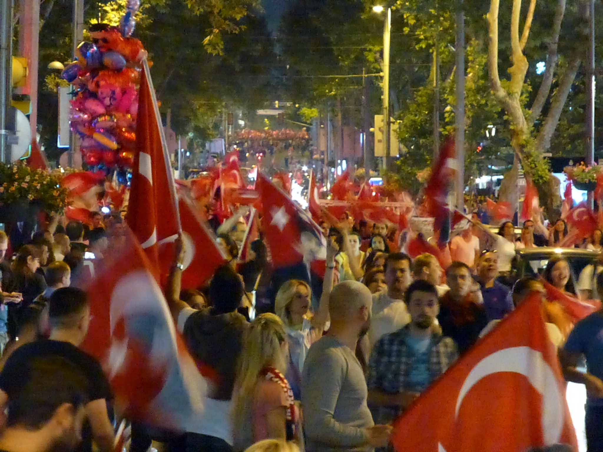 Demonstrations and protests against policies in Turkey June 2013, Bağdat caddesi, Istanbul